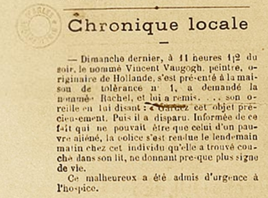 Info Excerpt from Le Forum Républicain of 30 December 1888, a local (Arles, France) newspaper reporting on Vincent's van Gogh's mutilation of his ear:Last Sunday, at 11.30 pm, the painter Vincent Vangogh, a native of Holland, arrived at licensed brothel no. 1, asking for Rachel by name, and gave her his ear saying: "Keep this object preciously". He then disappeared. Informed of this fact, which could only be that of a poor insane person, the police went the next morning to the person she found lying in bed, who showed almost no sign of life. This unhappy man was admitted to the hospice as a matter of urgency.